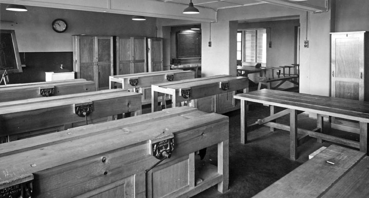 Ithaca Creek State School, Accommodation for manual training classes.